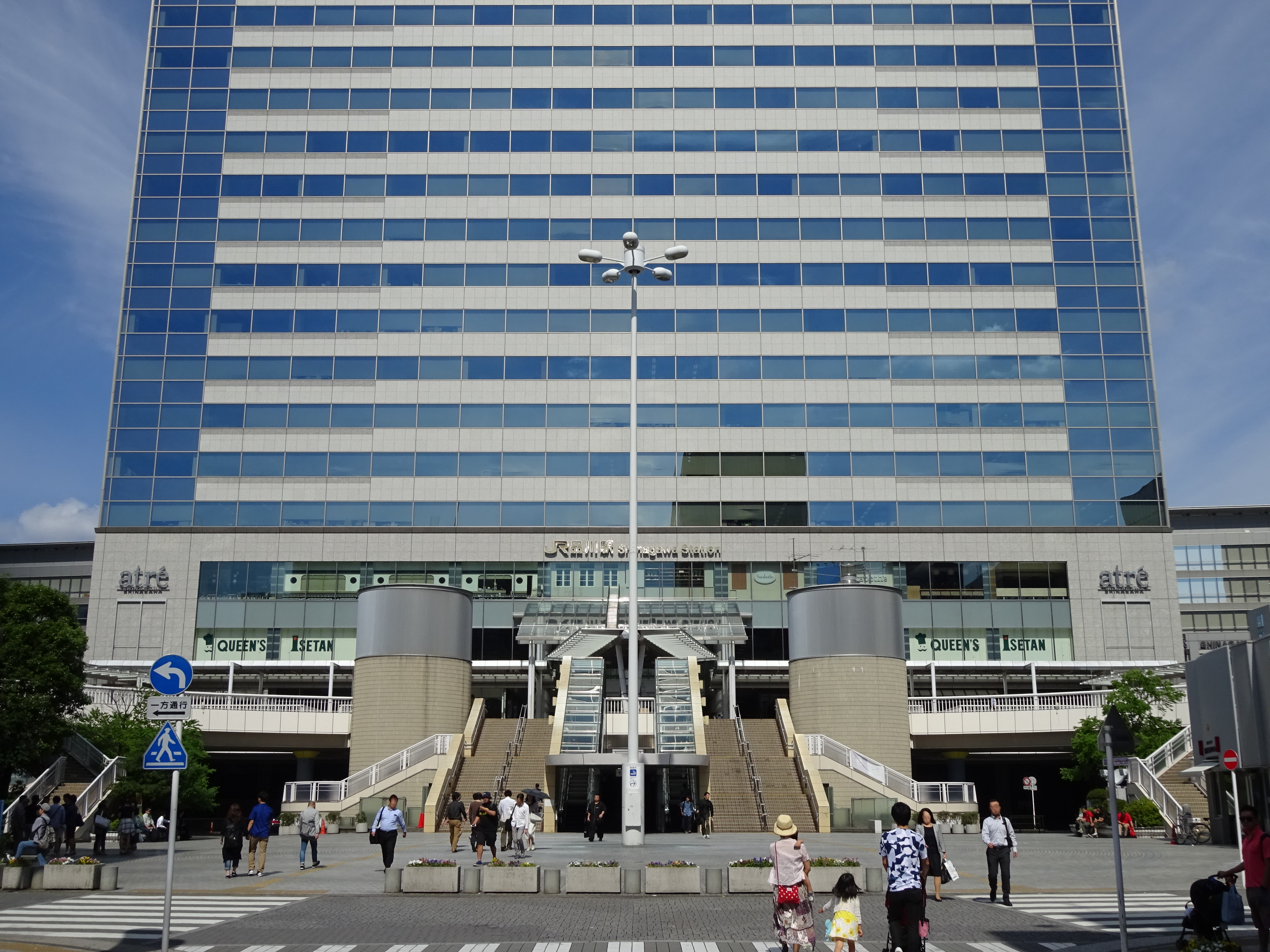 Konan Exit of Shinagawa Station